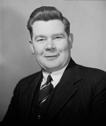 A 1954 black and white portrait of Reg Wright, Senator for Tasmania